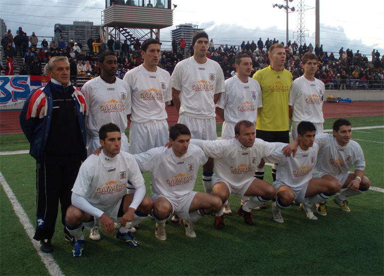 Serbian White Eagles team photo prior to the 2008 Canadian Soccer League final. Top row, from left to right: Milan Čančarević (head coach), Darryl Gomez, Mirko Medić, Marc Jankovic, Dragorad Milićević, Dan Pelc and Niki Budalic (captain). Bottom row: Alex Braletic, Uroš Stamatović, Nenad Stojčić, Milos Scepanovic and Miloš Vučinić. This photo was used here